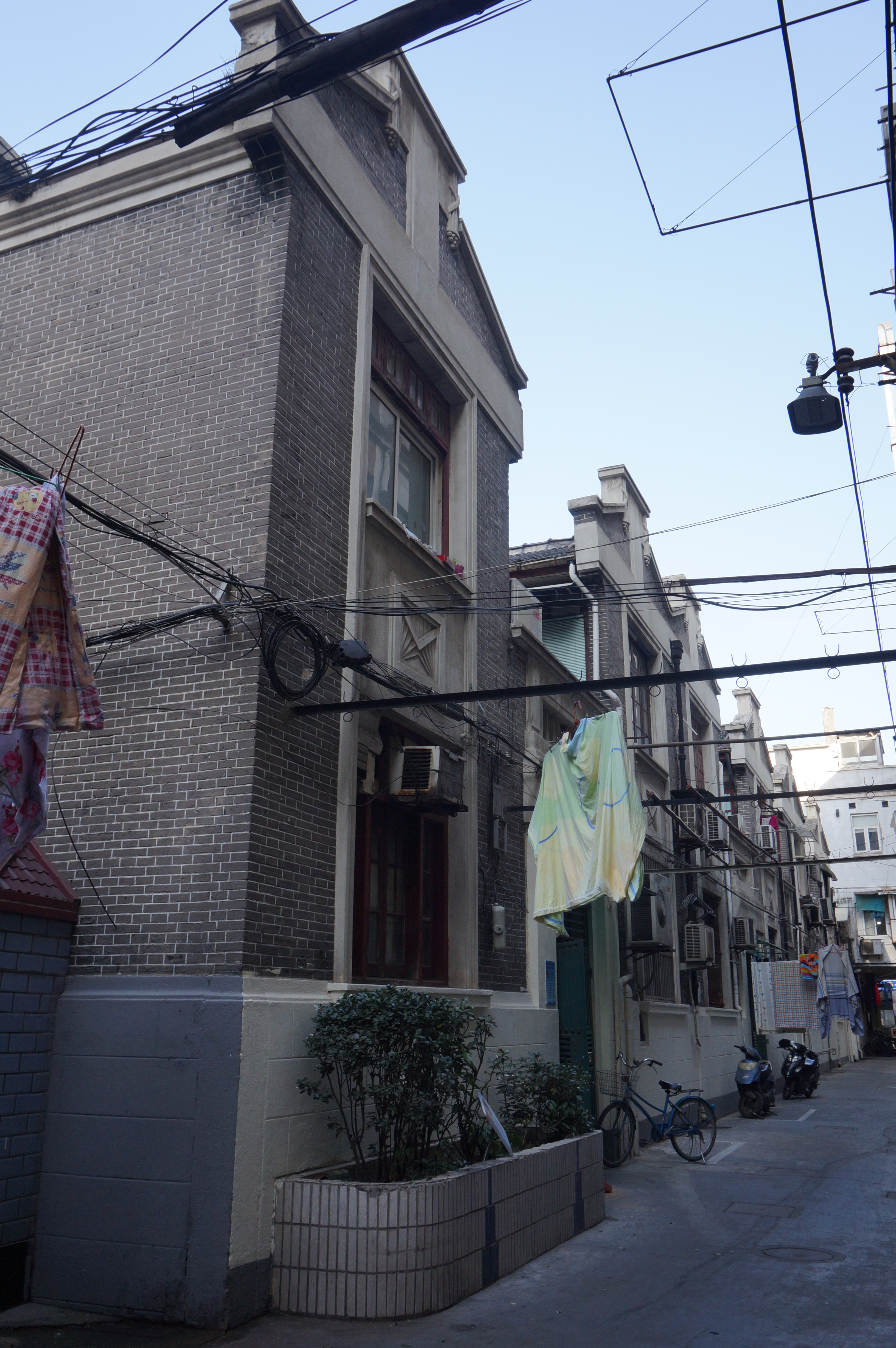 One of the earliest Shikumen Lilong in Shanghai that still exists